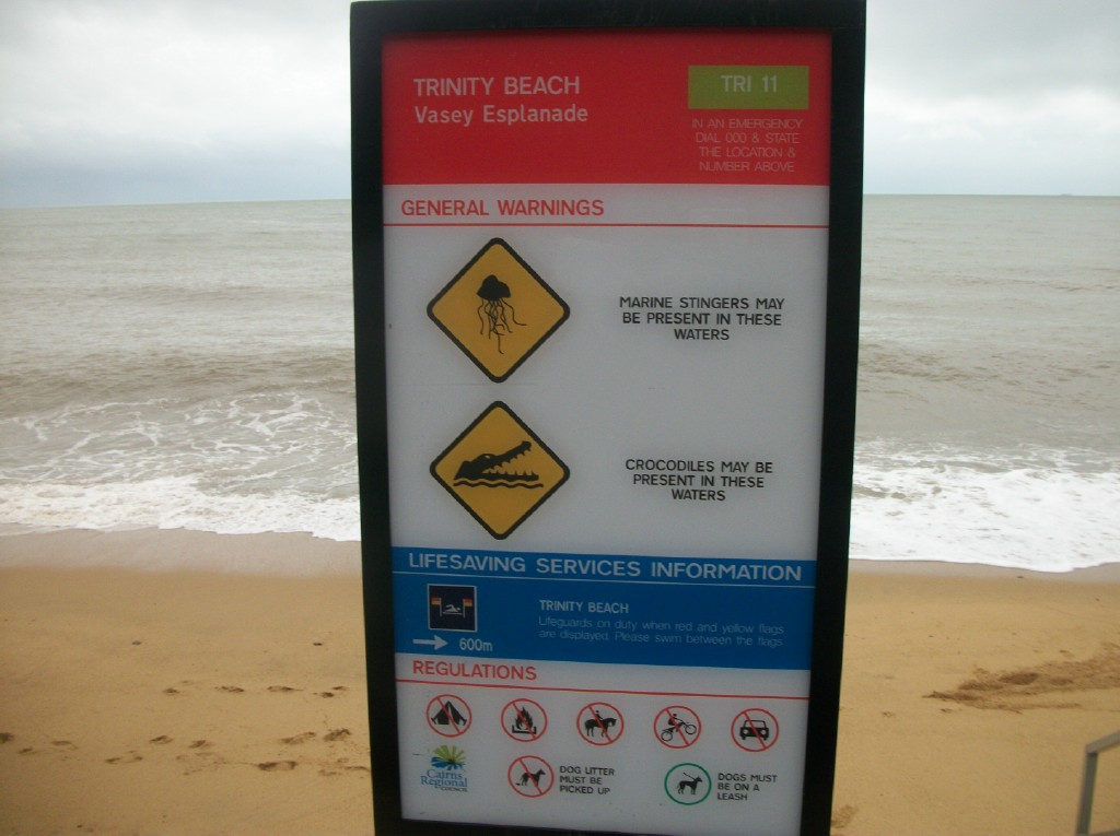 Marine Stingers Sign Cairns